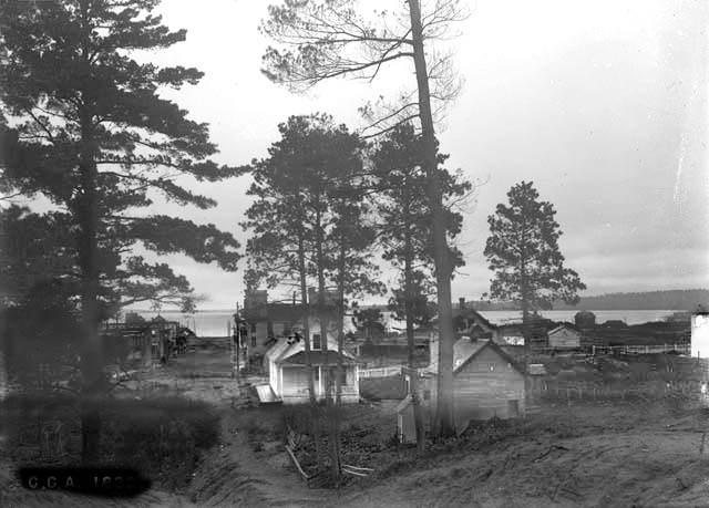 Walker village near Leech Lake